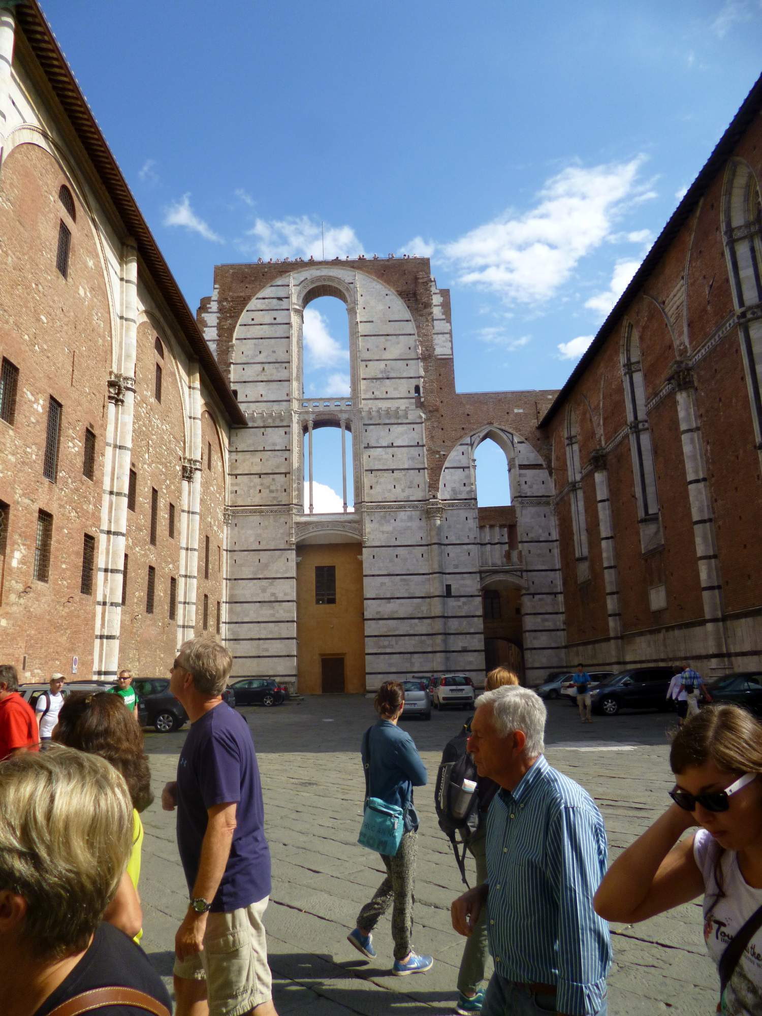 siena22